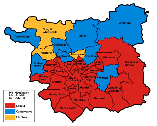 Ward map of Leeds City Council with political colouring for the 1991 election.